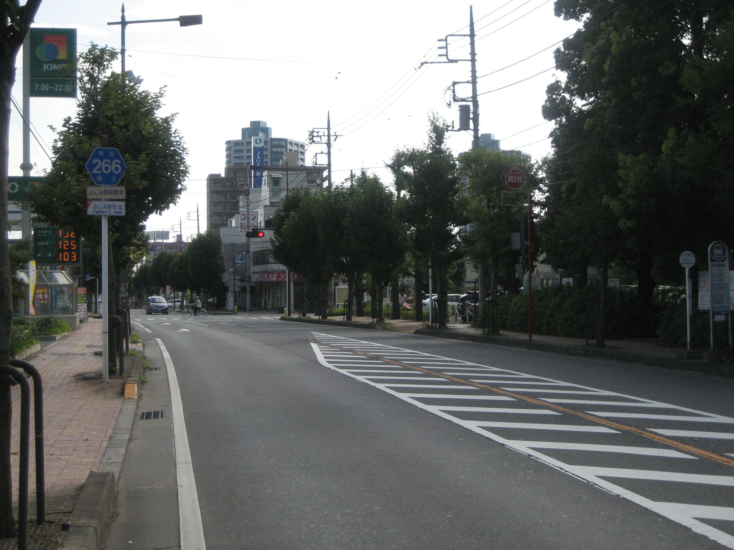 The Saitama Prefectural Road Route 266 in Fujimino City